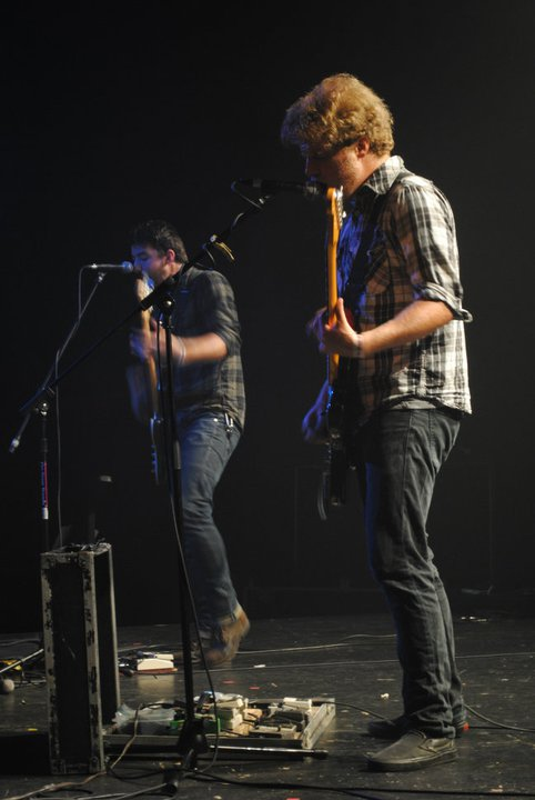 My Epic in Jacksonville in 2011.